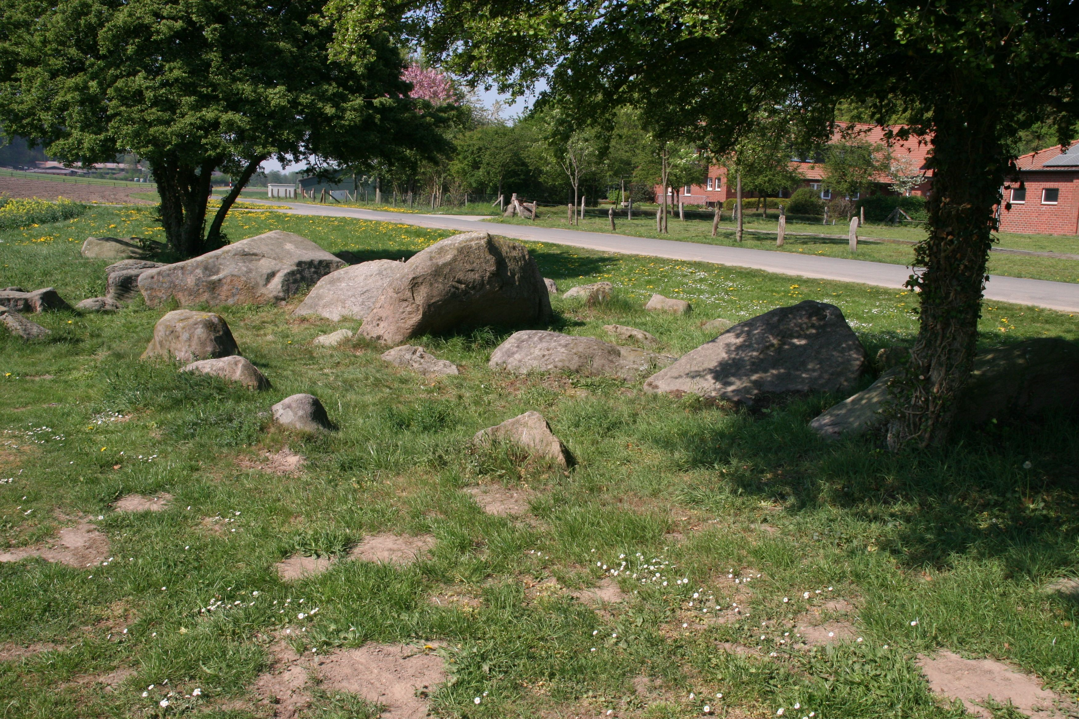 Osnabrück: megalithic chambered tomb "Östringer Steine II"